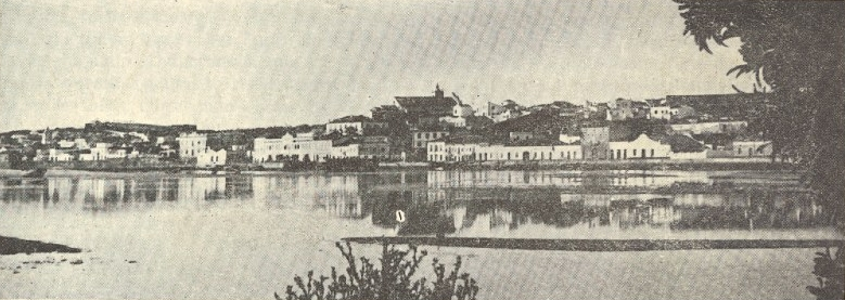 View of the city of Lagos, in southern Portugal. This image was published in the Gazeta dos Caminhos de Ferro magazine No. 1398, of 16th March 1946, and scanned by the Hemeroteca Municipal de Lisboa.